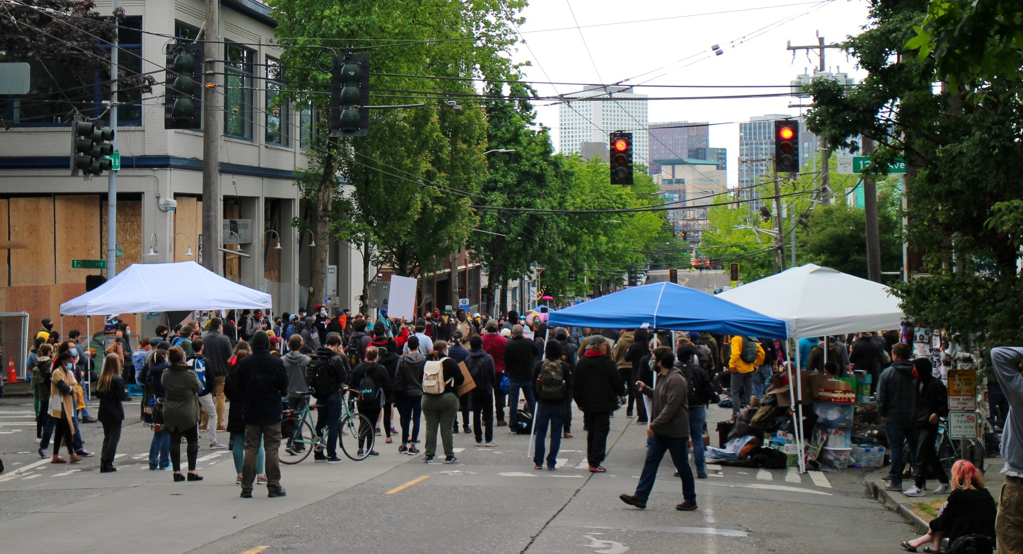 "Capitol Hill Autonomous Zone" area during the George Floyd protests in Seattle, Washington